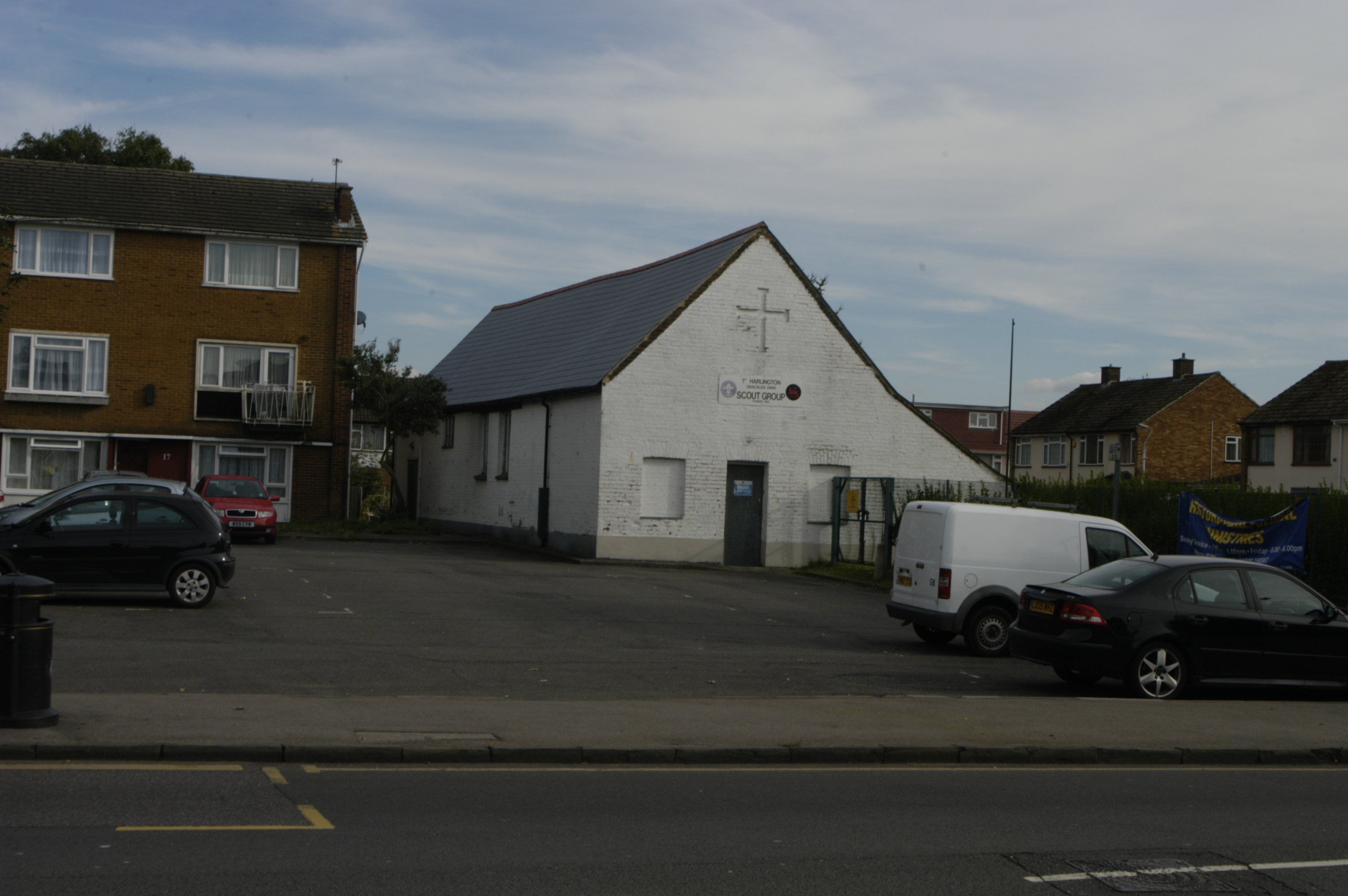 Photo (by me, R. de Salis, Rodolph (talk) 21:25, 25 November 2014 (UTC)) of the Scout Hut, aka Shackle's Barn, Harlington, Middlesex, 2014.